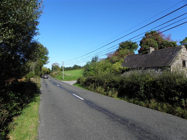 R207 at Cornashamsoge